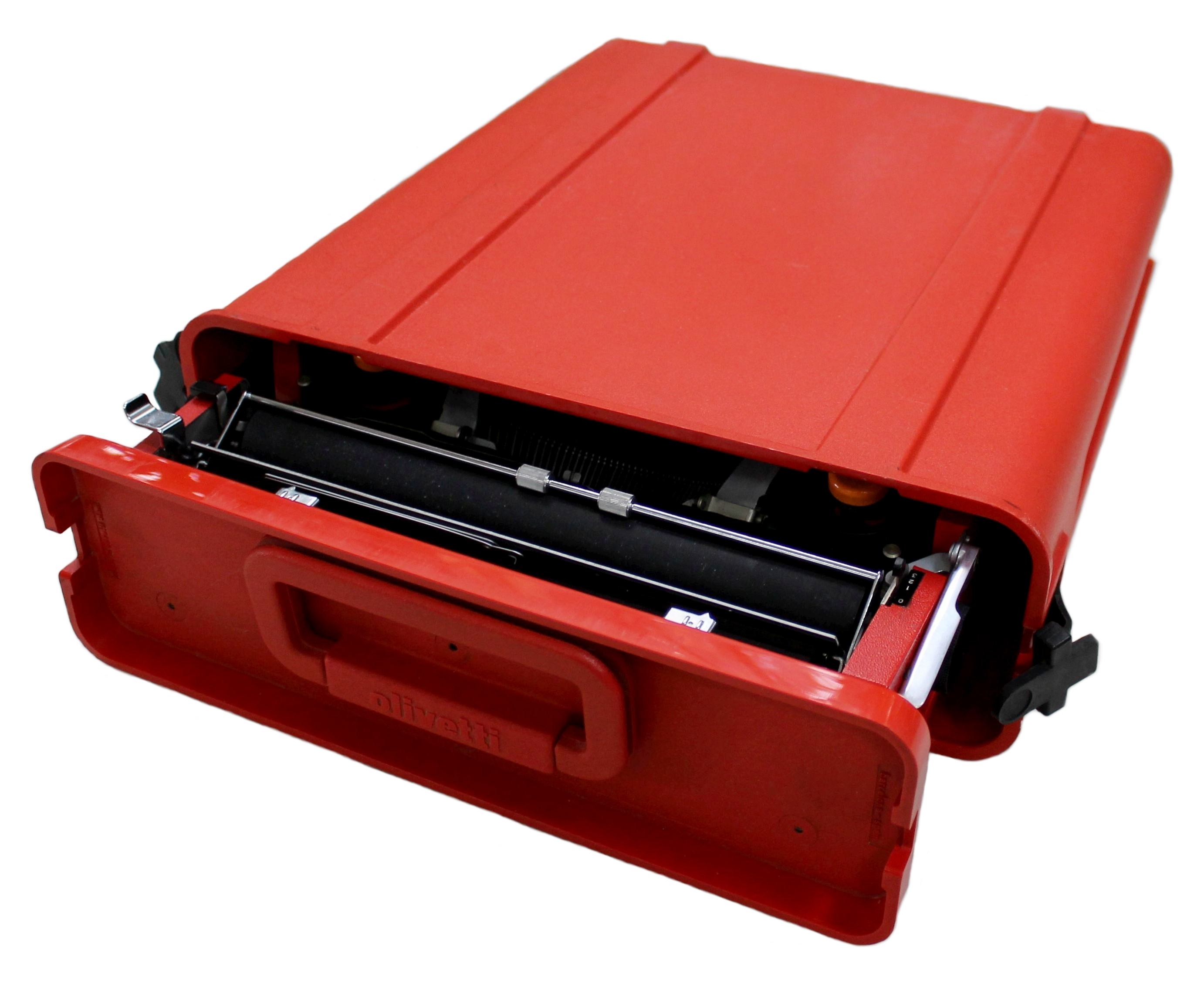 Olivetti Valentine with transport cover